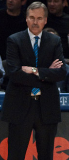 Mike D'Antoni coaching the New York Knicks in 2009.